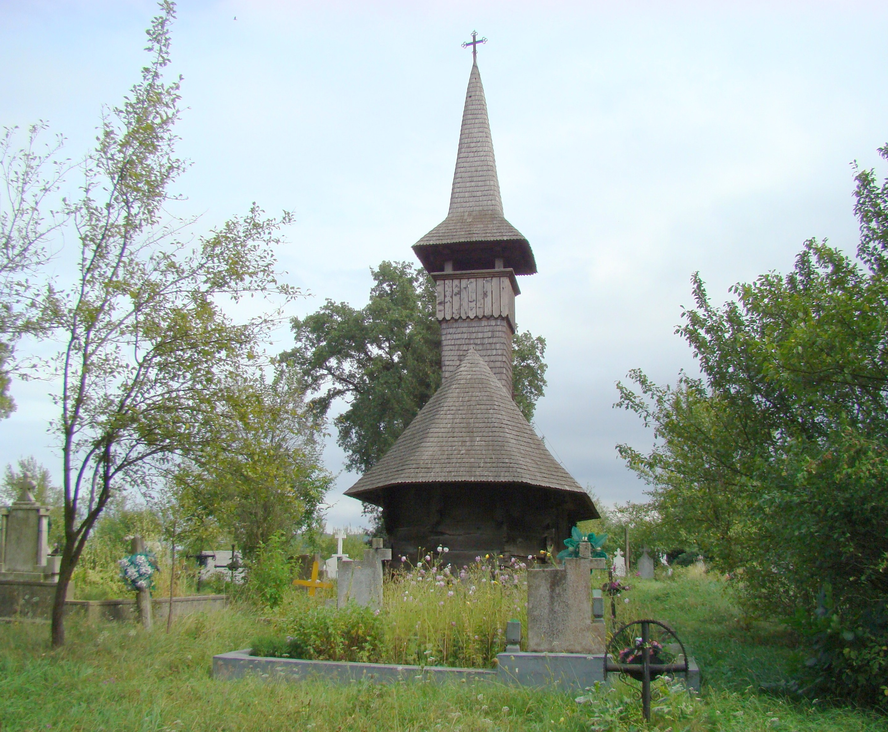 Wooden church in Bretea Mureșană, Hunedoara county, Romania